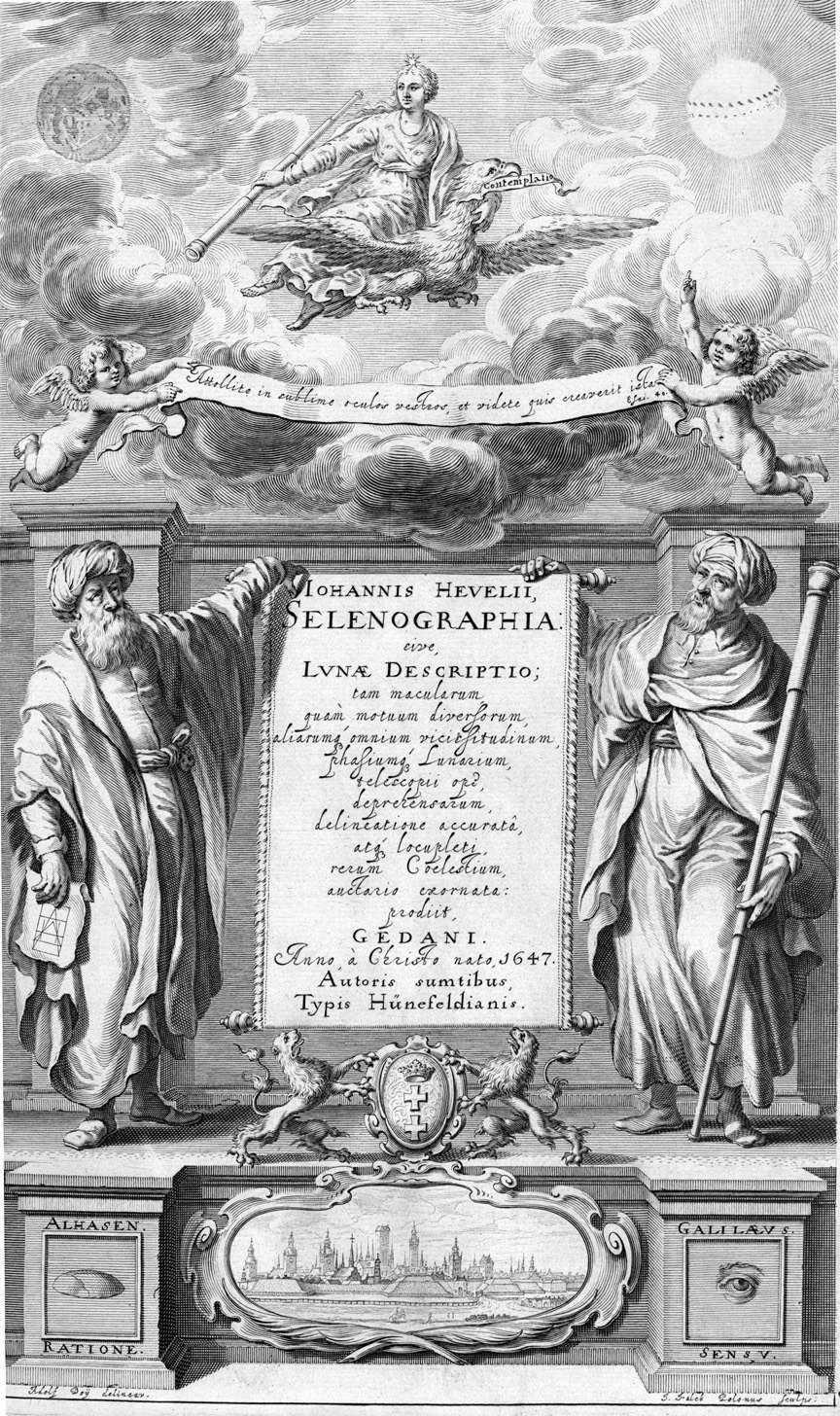 Frontispiece of Johannes Hevelius, Selenographia (Gdansk, 1647). Depictions of Alhasen [sic], Ibn al-Haytham, on the left, holding a geometrical diagram and symbolizing knowledge through reason and Galileo Galilei on the right, holding a telescope and symbolizing knowledge through the senses.